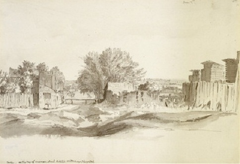 Area in London where Norfolk Rd and Cleveland St were later laid out. work created in 1771 - 1772 AD